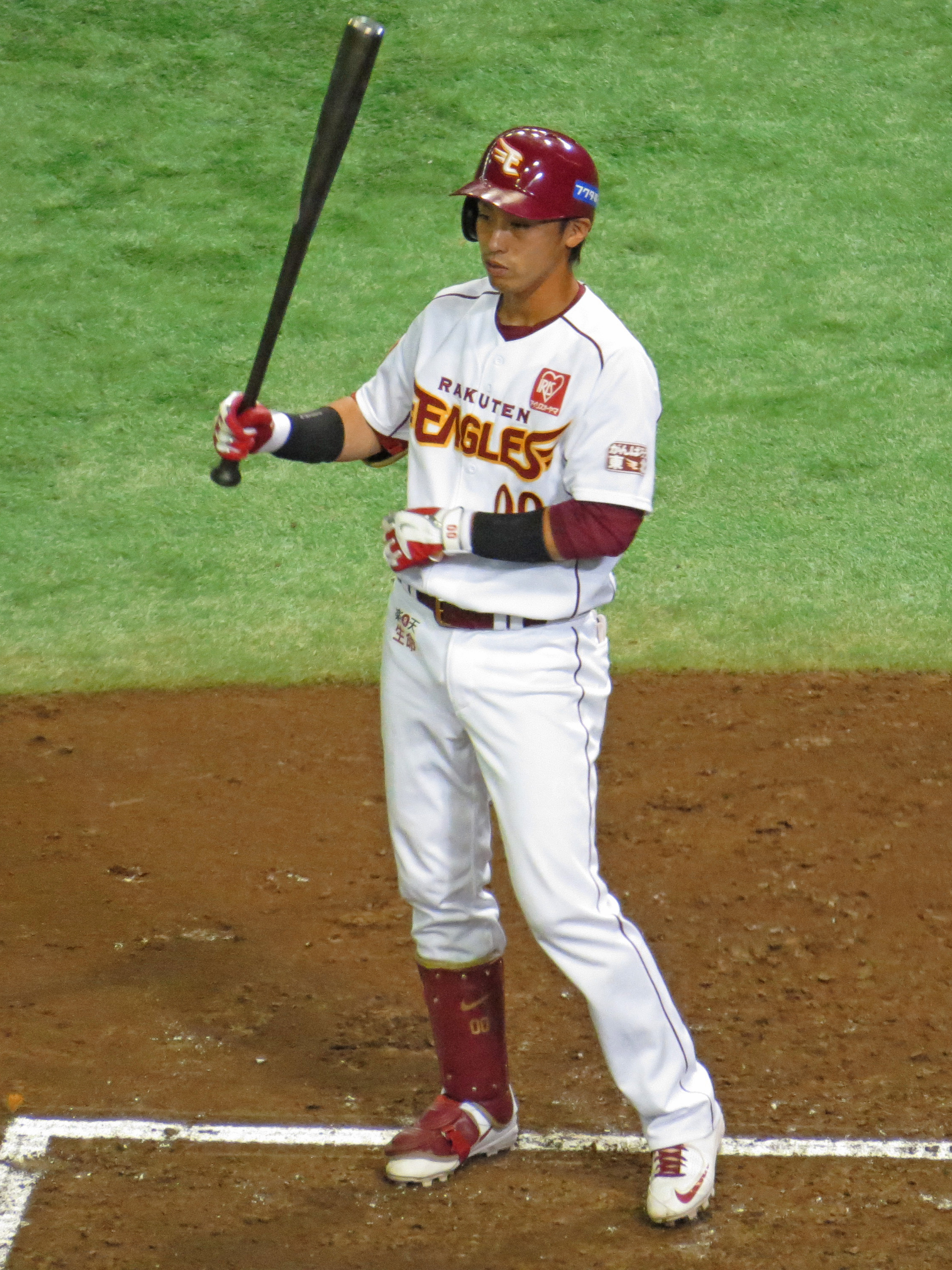 Toshihito Abe, infielder of the Tohoku Rakuten Golden Eagles, at Tokyo Dome.